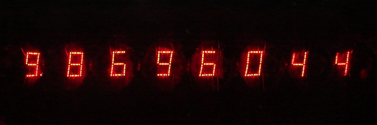 Seven-segment display digits of an original Texas Instruments TI-30 scientific calculator (circa 1979).